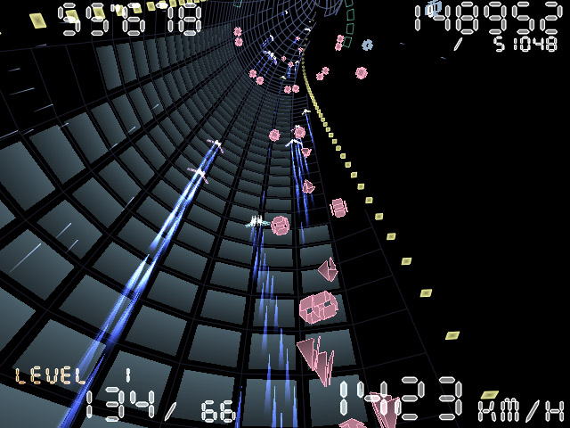 Screenshot of the freeware video game Torus Trooper This image was uploaded in the JPEG format even though it consists of non-photographic data. This information could be stored more efficiently or accurately in the PNG or SVG format. If possible, please upload a PNG or SVG version of this image without compression artifacts, derived from a non-JPEG source (or with existing artifacts removed). After doing so, please tag the JPEG version with Superseded|NewImage.ext and remove this tag. This tag should not be applied to photographs or scans. For more information, see BadJPEG .